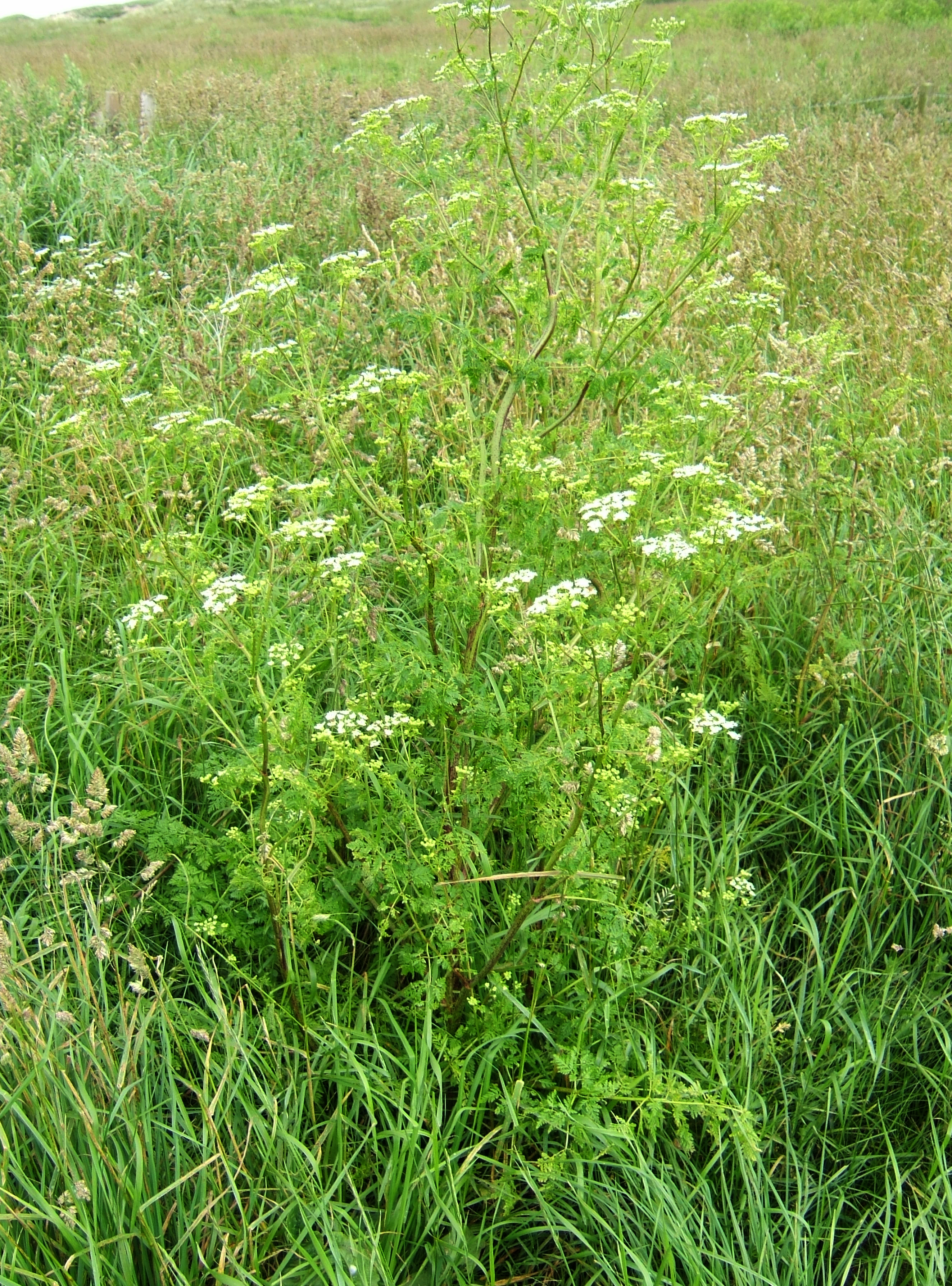 Conium maculatum plant, Cresswell Dunes, Northumberland (VC 67), UK